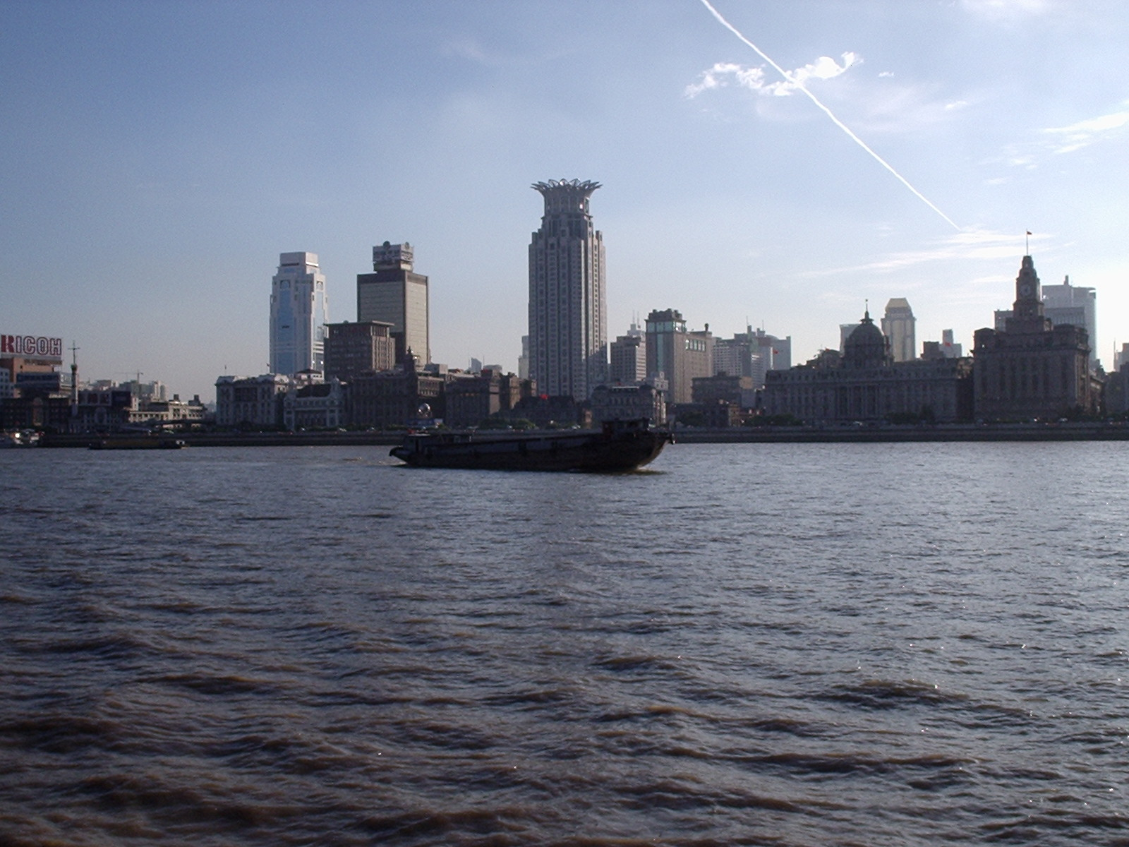 A freight vessel sails along the Huangpu River, with the colonial buildings of the Bund, interspersed with modern skyscrapers, in the background.